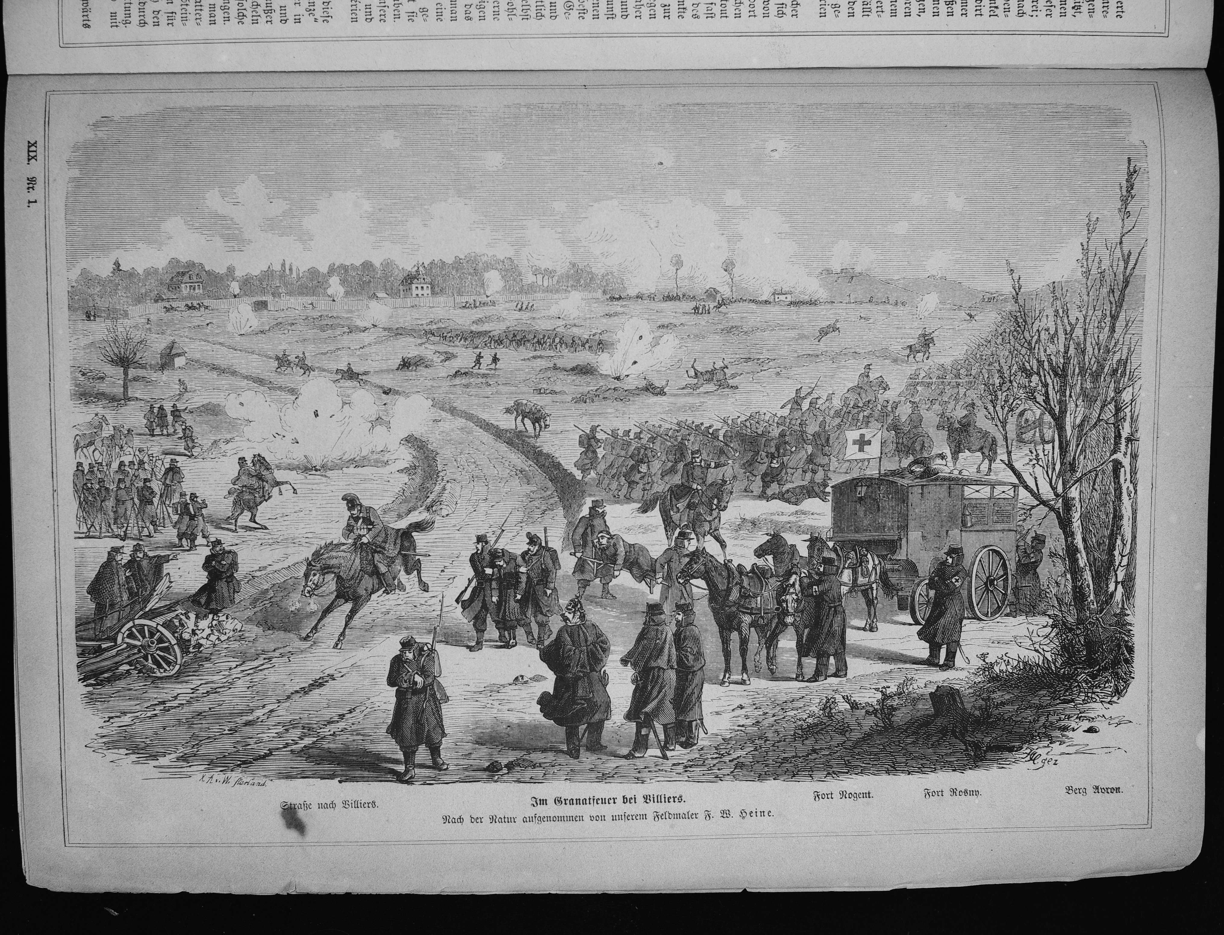 Page 17 from journal Die Gartenlaube for 1871. Extracted image (if any): File:Die Gartenlaube (1871) b 017.jpg - hi res, ~2.5 MB.